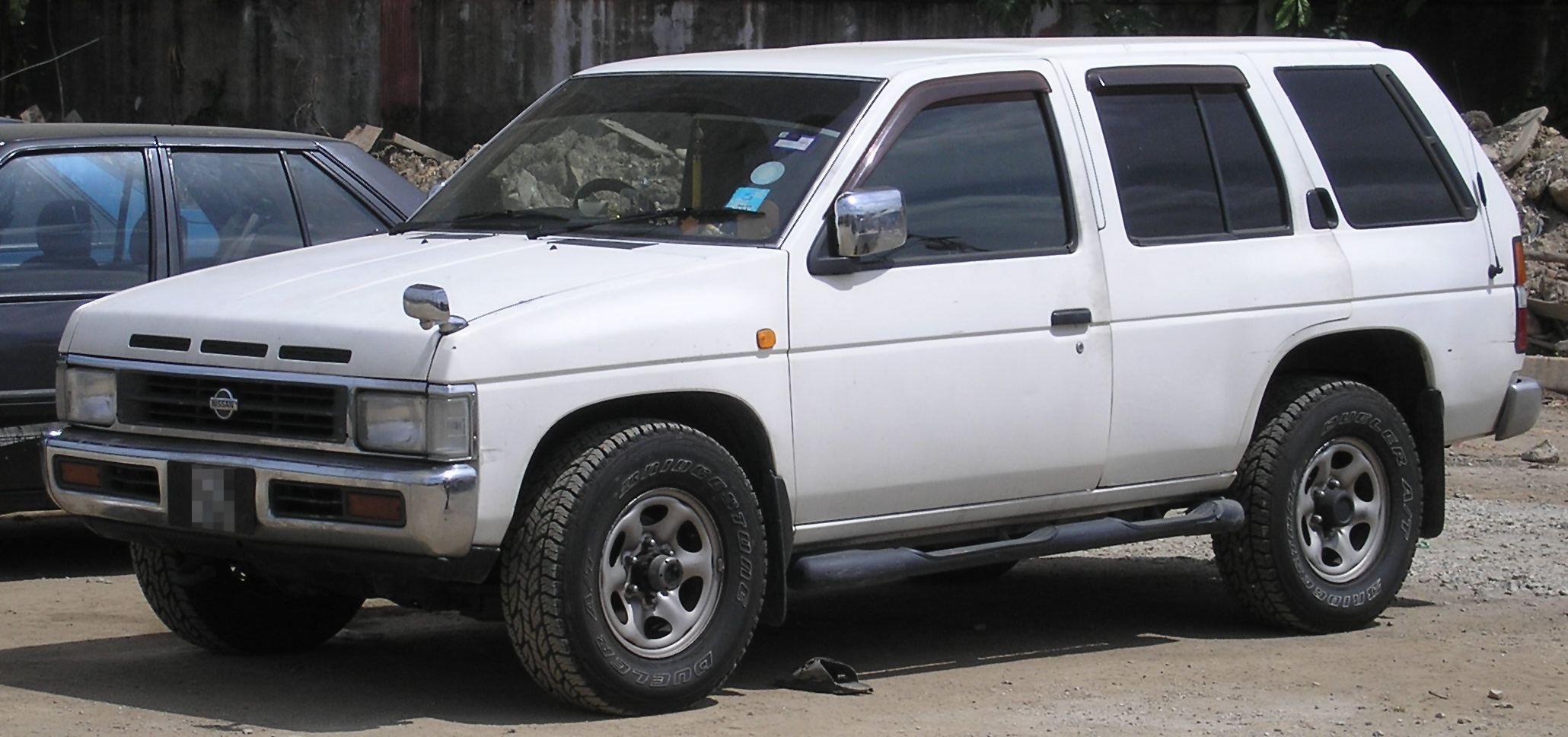 Front quarter view of a first generation Nissan Terrano in Batu Caves, Selangor, Malaysia.